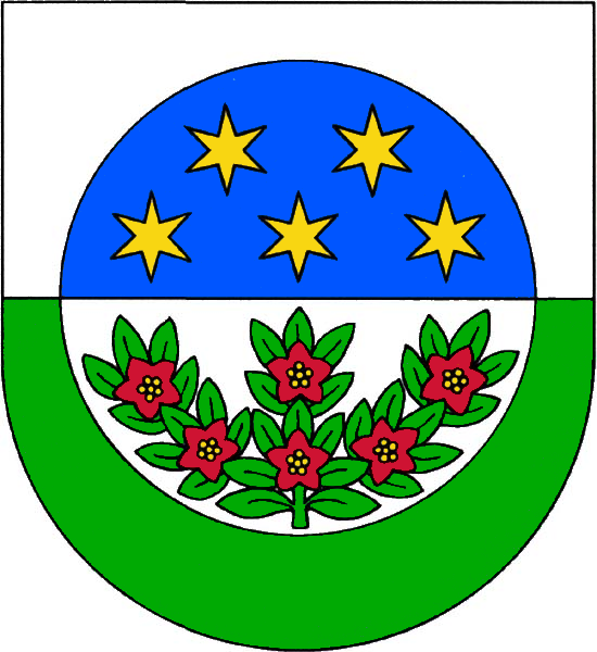 Municipal coat of arms of Slatina village, Litoměřice District, Czech Republic.